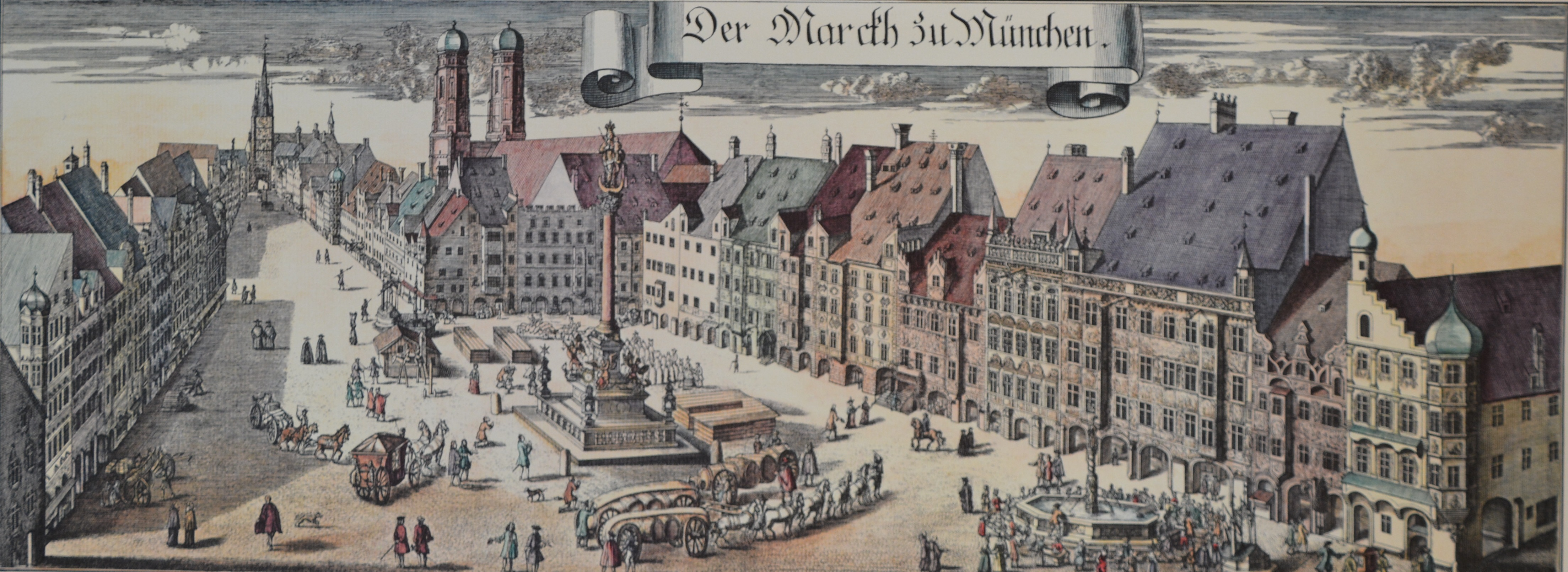 Munchen 1701 by M. Wening